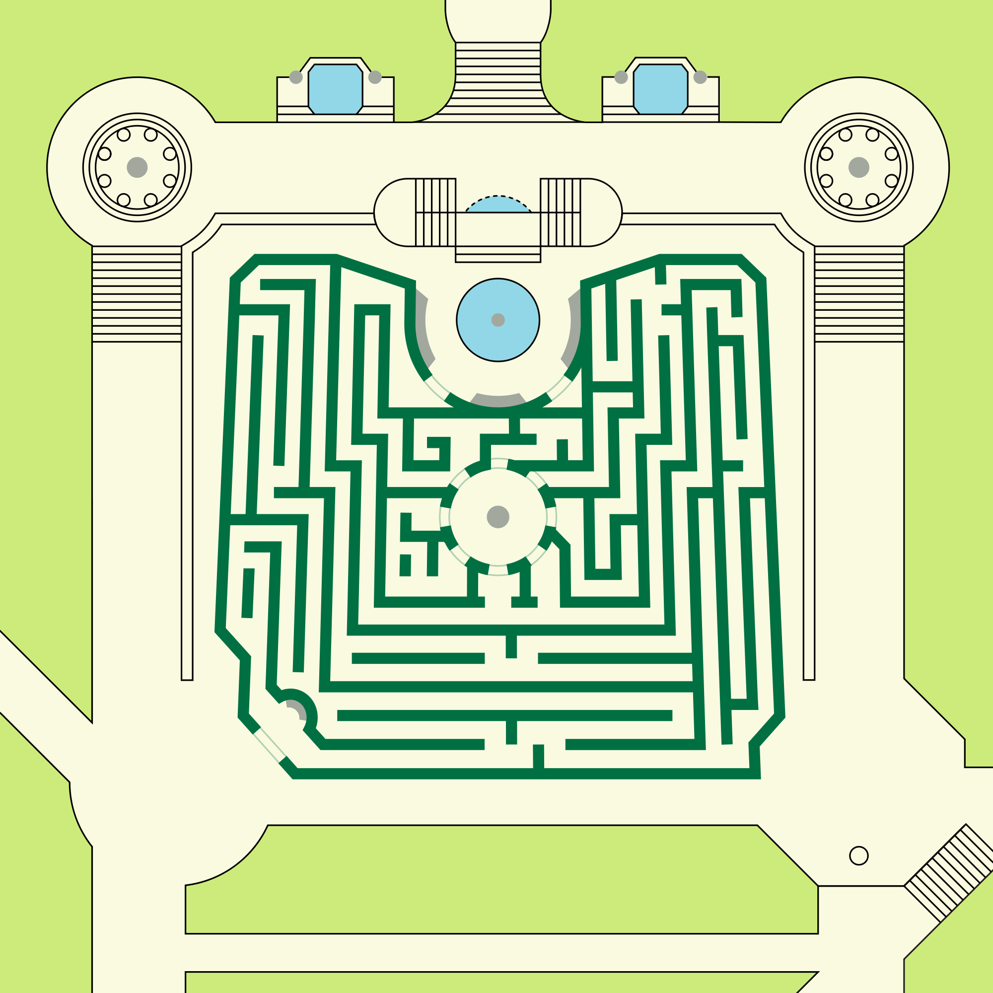 modified copy of file "Labyrinth - Parc del Laberint d'Horta - Barcelona.svg".